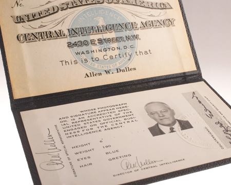 Identification Card of Allen W. Dulles.